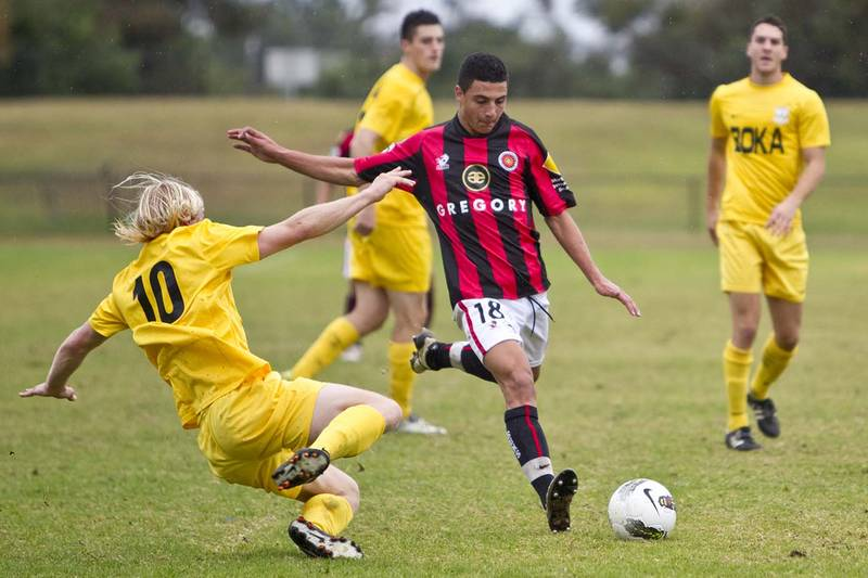 Taking a shot